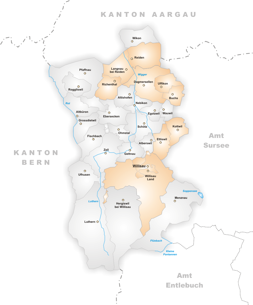 Municipalities of District Willisau until 2005